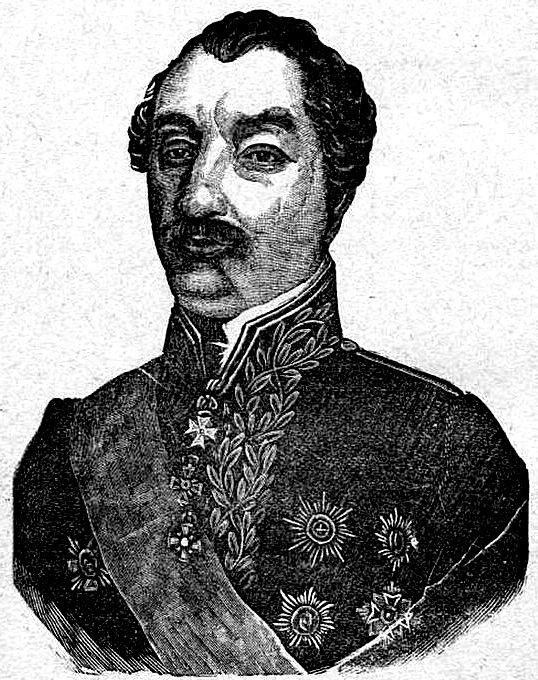 Konstantinos Schinas (1801-1870): Greek politician